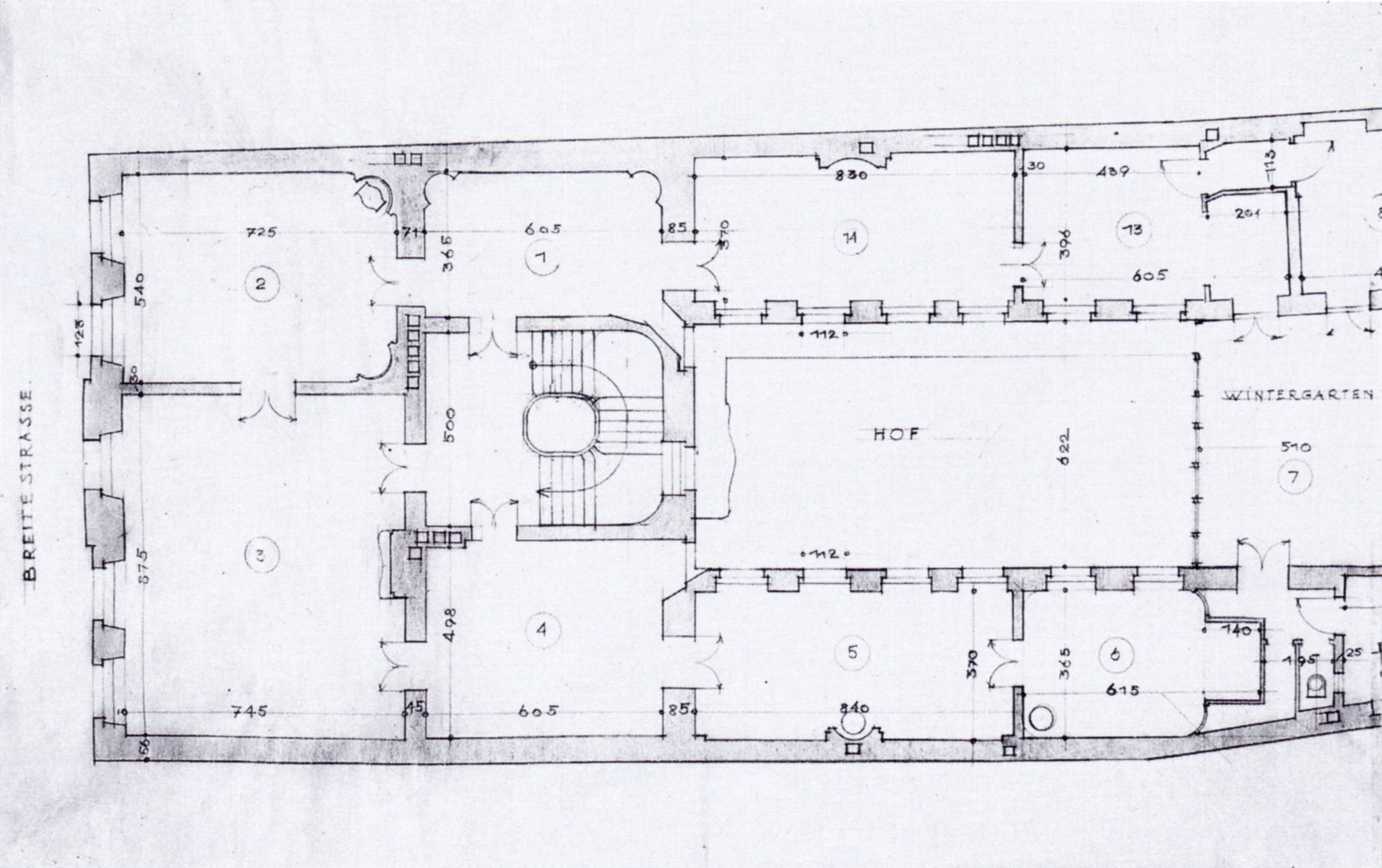 Floor plan of the original Ermeler house at Breite Straße 11 before demolition and recontruction at Märkisches Ufer Nr. 10